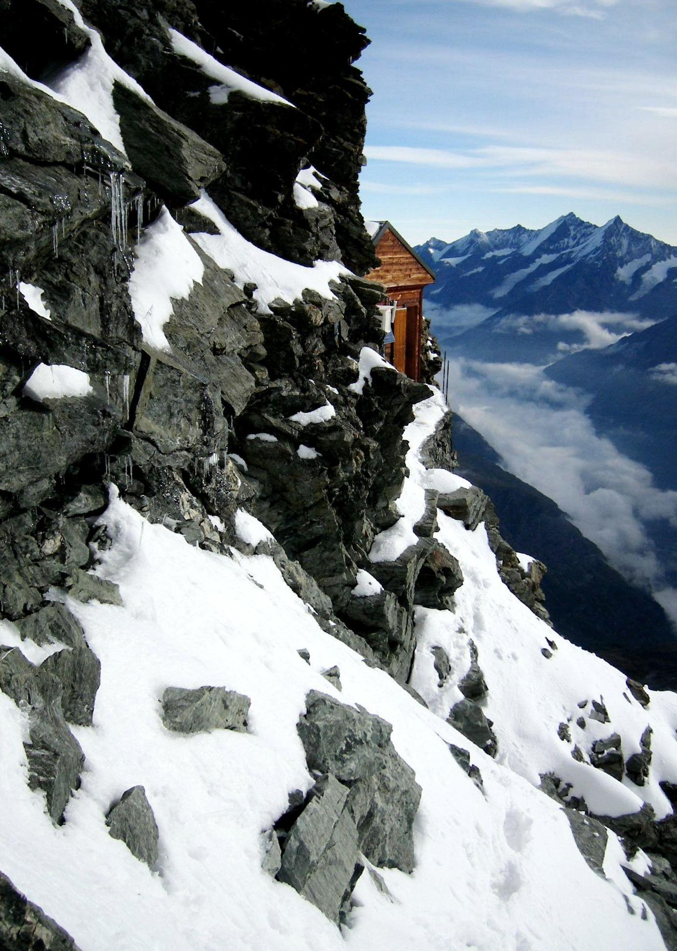 Solvayhütte (4000 m), Matterhorn